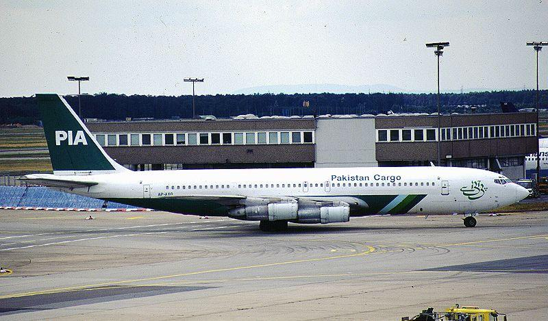 PIA Cargo Boeing 707-340C